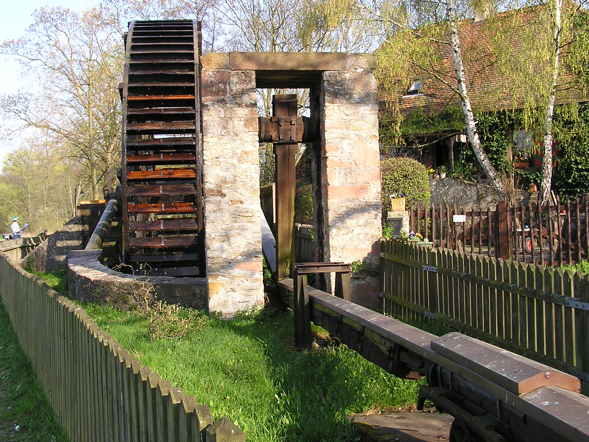 Water wheel at Bad Nauheim-Schwalheim, powered by the Wetter. The wheel run the pumps at the graduation towers in Bad Nauheim by moving a bar.